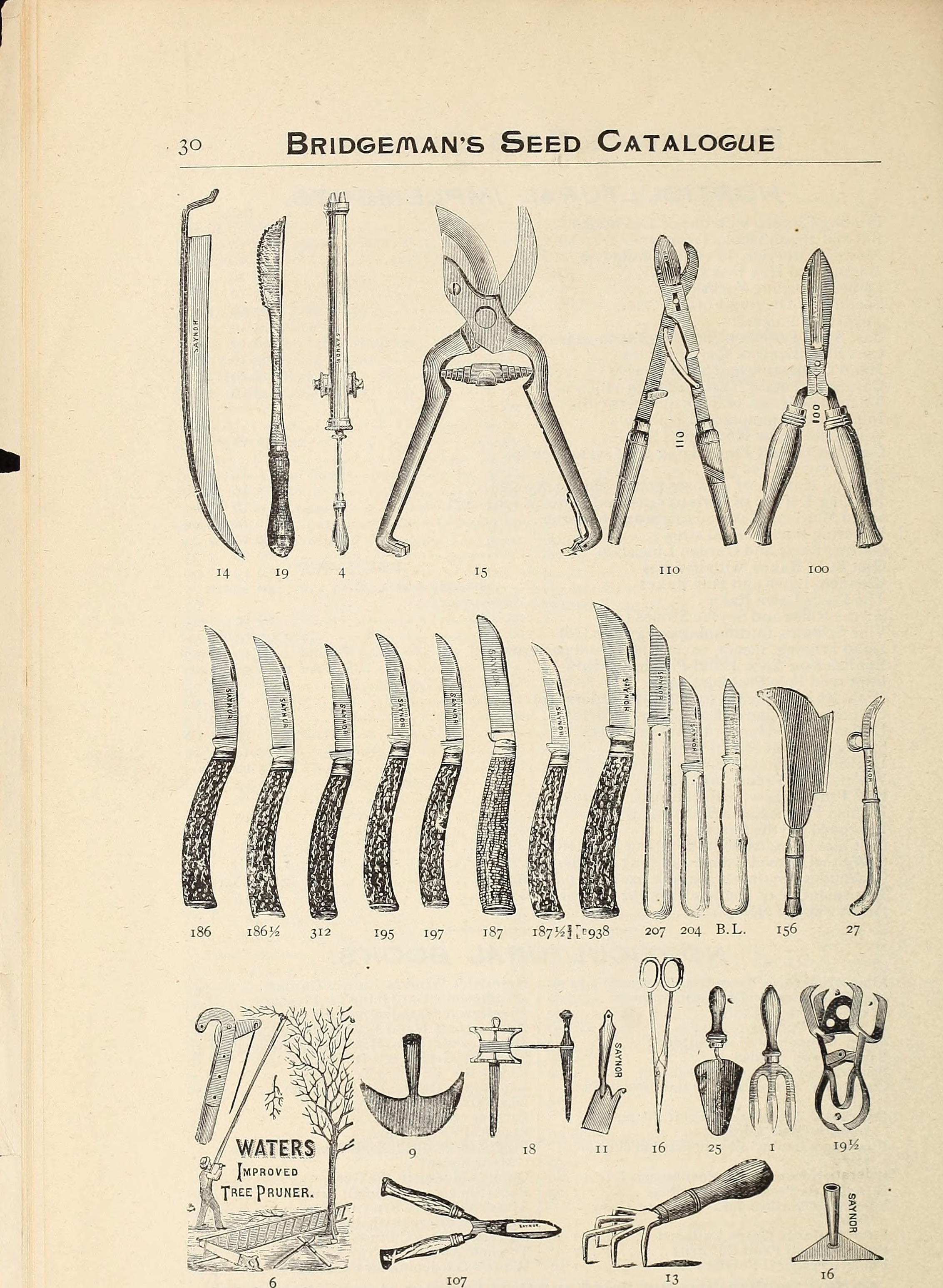 Title: 1894 annual descriptive catalogue : seeds Year: 1894 (1890s) Authors: Bridgeman, Alfred; Alfred Bridgeman (Firm); Henry G. Gilbert Nursery and Seed Trade Catalog Collection Subjects: Vegetables Seeds Catalogs; Flowers Seeds Catalogs; Grasses Seeds Catalogs; Herbs Seeds Catalogs; Gardening Equipment and supplies Catalogs; Commercial catalogs New York (State) New York Publisher: New York : : Alfred Bridgeman Text Appearing Before Image: ' Text Appearing After Image: '